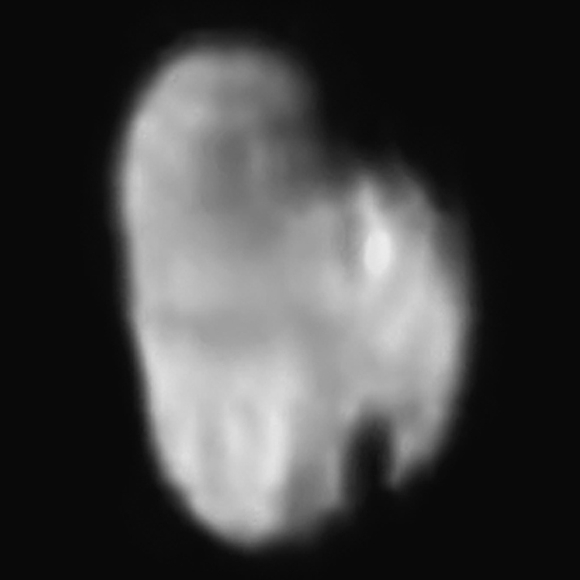 Hydra imaged by the LORRI instrument aboard the New Horizons spacecraft on 14 July.